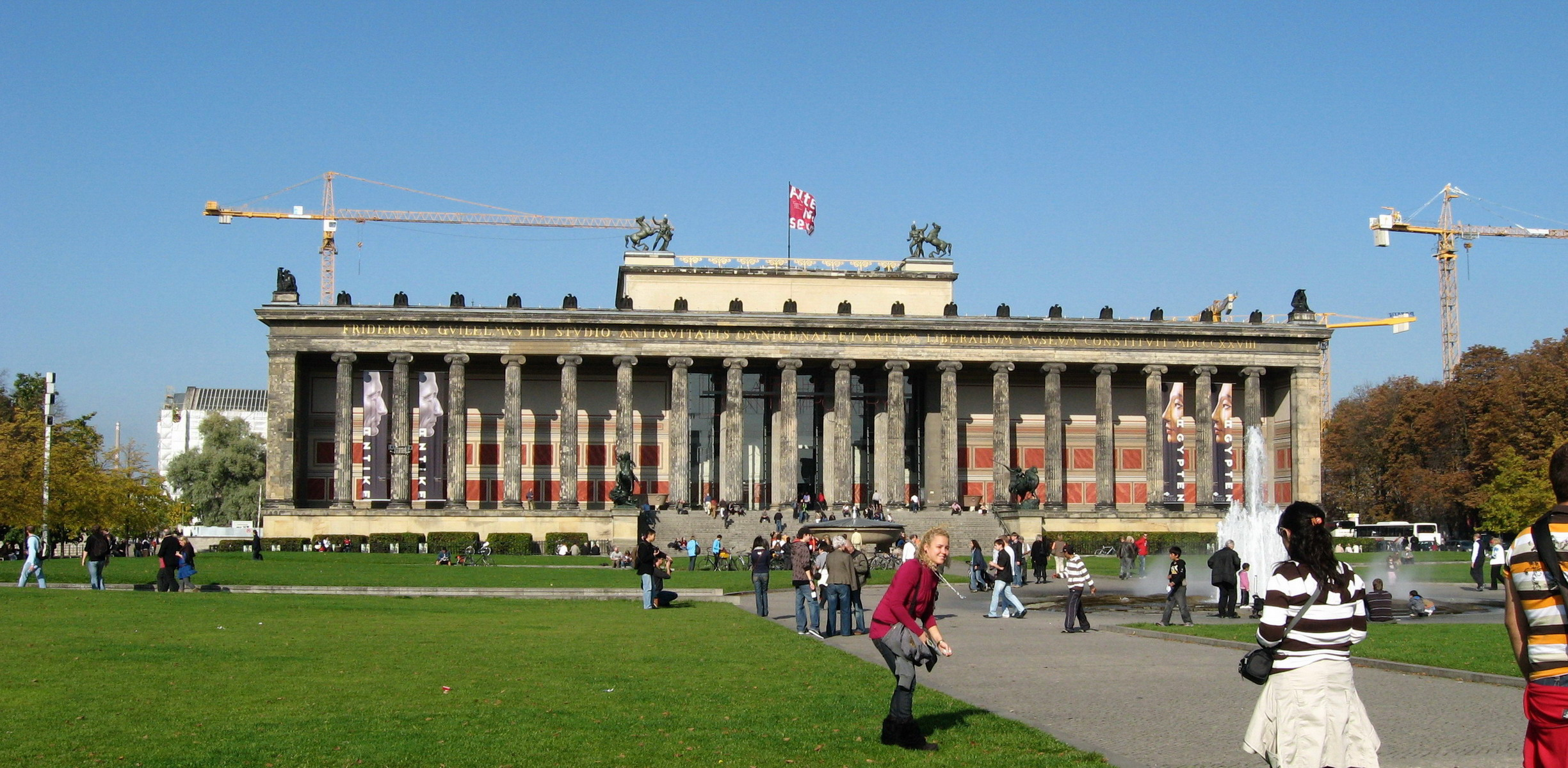 Altes Museum, Museuminseln, Berlin, Germany